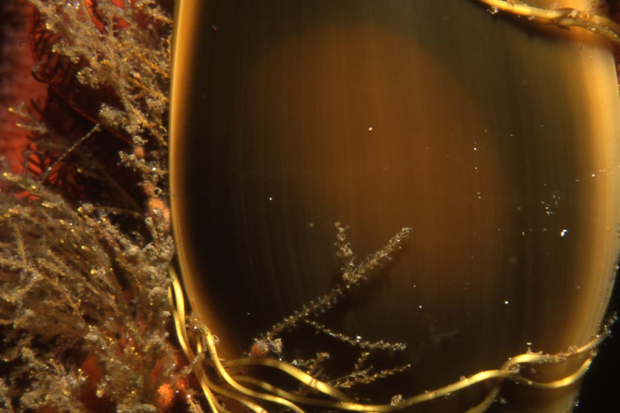 a closeup photo of a pyjama catshark egg case taken off the Cape Peninsula in 24m of water using a Nikonos V camera